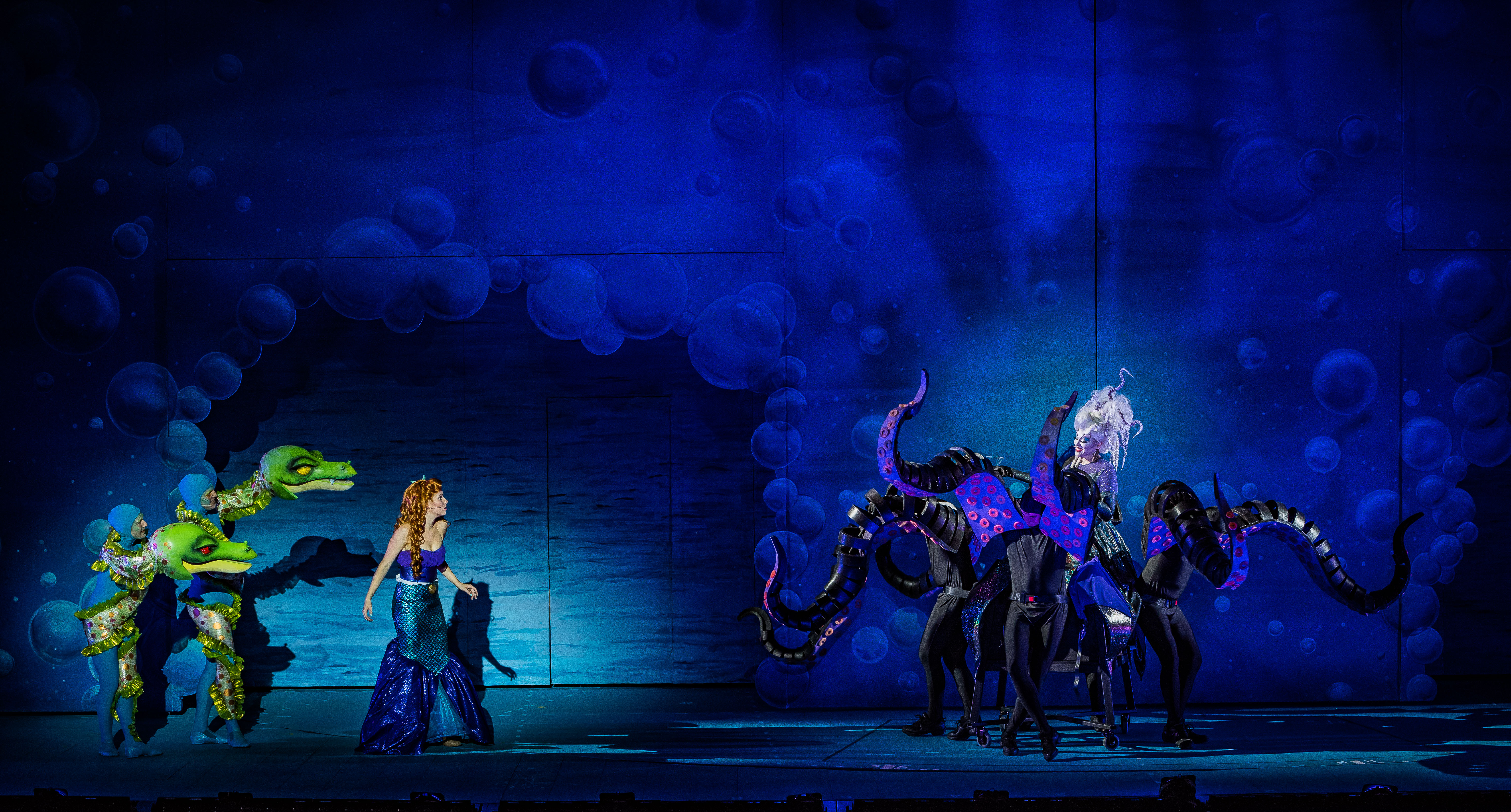 A scene from The Little Mermaid at The Muny in 2017. Featuring Emily Skinner as Ursula.